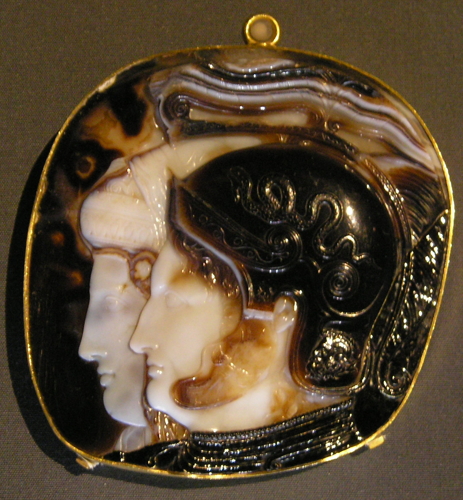 A Gemma, in the Collection of Greek and Roman Antiquities in the Kunsthistorisches Museum, Vienna. Depiction of an Emperor.